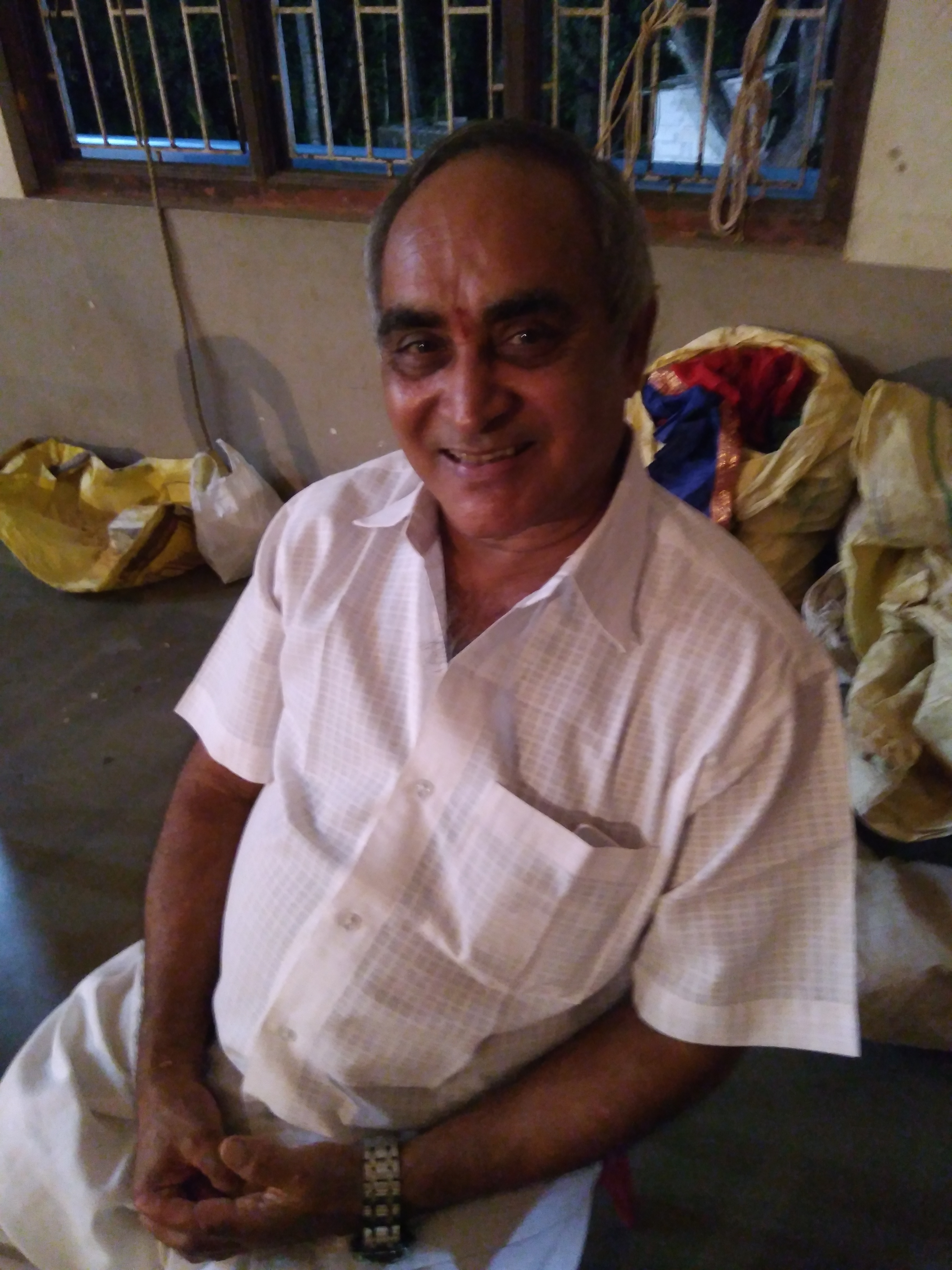 Shreedhara Bhandary Puttur